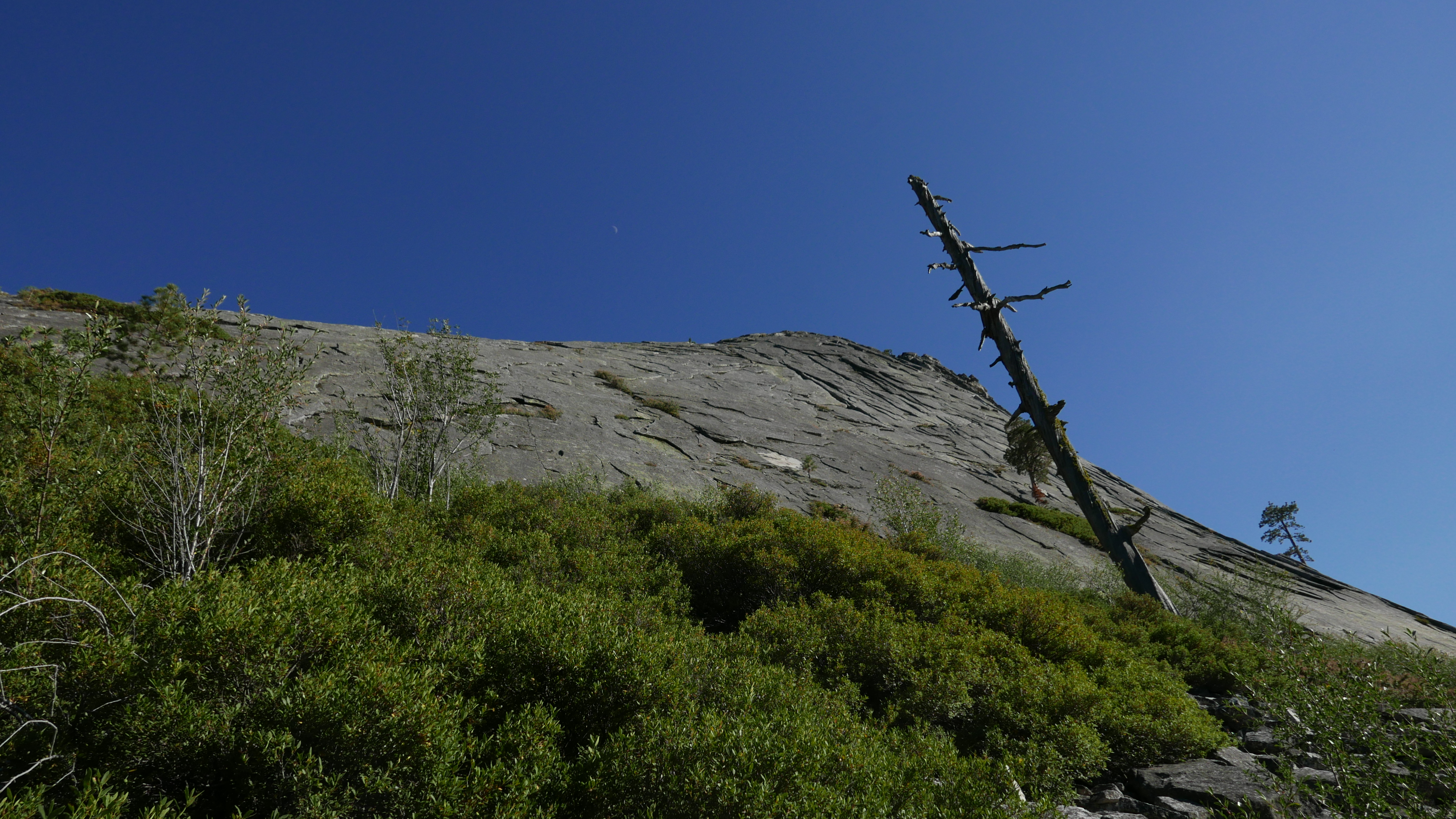 Lovers Leap climbing area in Strawberry, California.